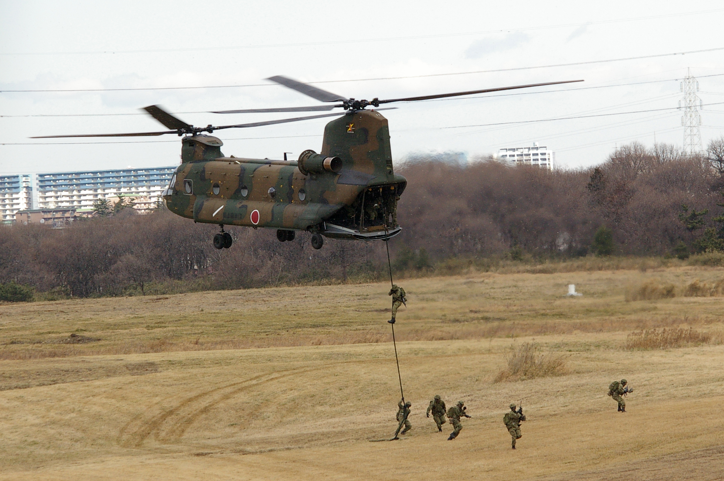 JGSDF CH-47.In Narashino,Japan,JGSDF 1st Airborne Brigade 2008 first drop manuver